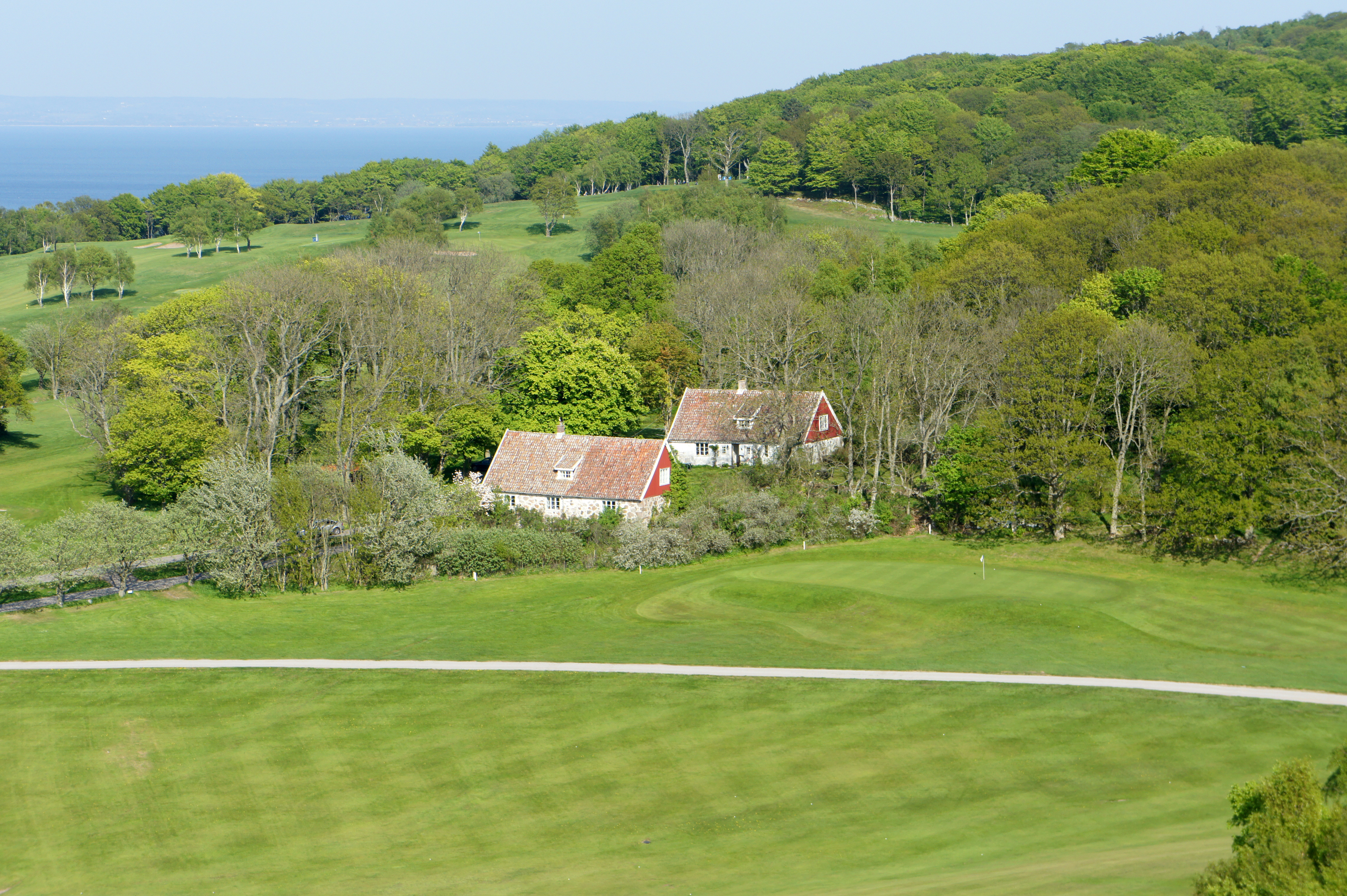 Ransgården, an old farmhouse and hotel. Mölle golf-court.